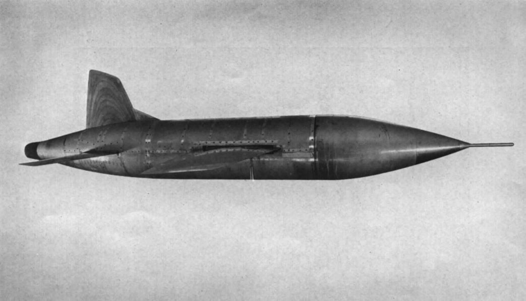 The RAE-Vickers rocket model.